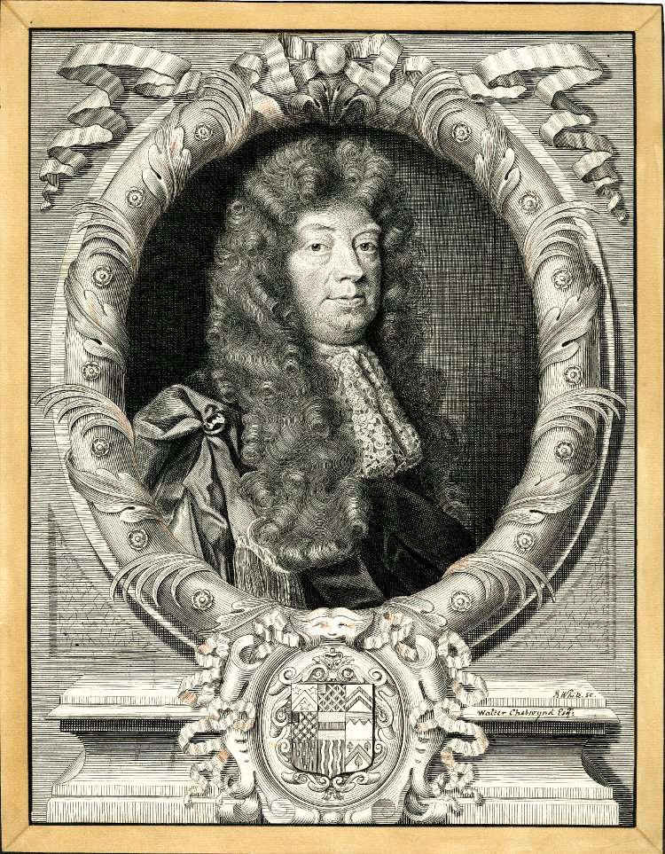 Portrait of Walter Chetwynd of Ingestre, Staffordshire, engraving by the English printmaker Robert White. 347 mm x 263 mm. Courtesy of the British Museum, London.